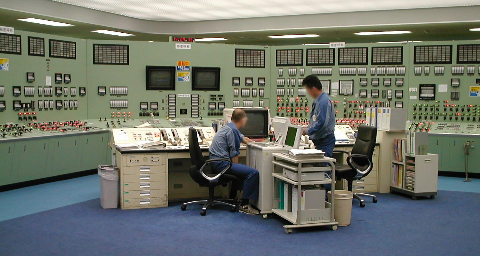 Reactor control room at Fukushima 1 nuclear power plant in Japan This photo was taken on June 23, 1999 during a tour of the plant.